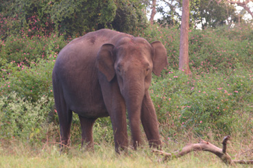 A wild elephant